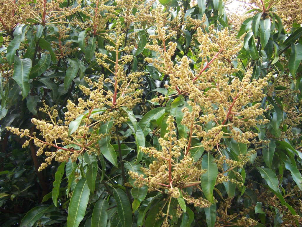 mango tree (Mangifera indica)- flowers